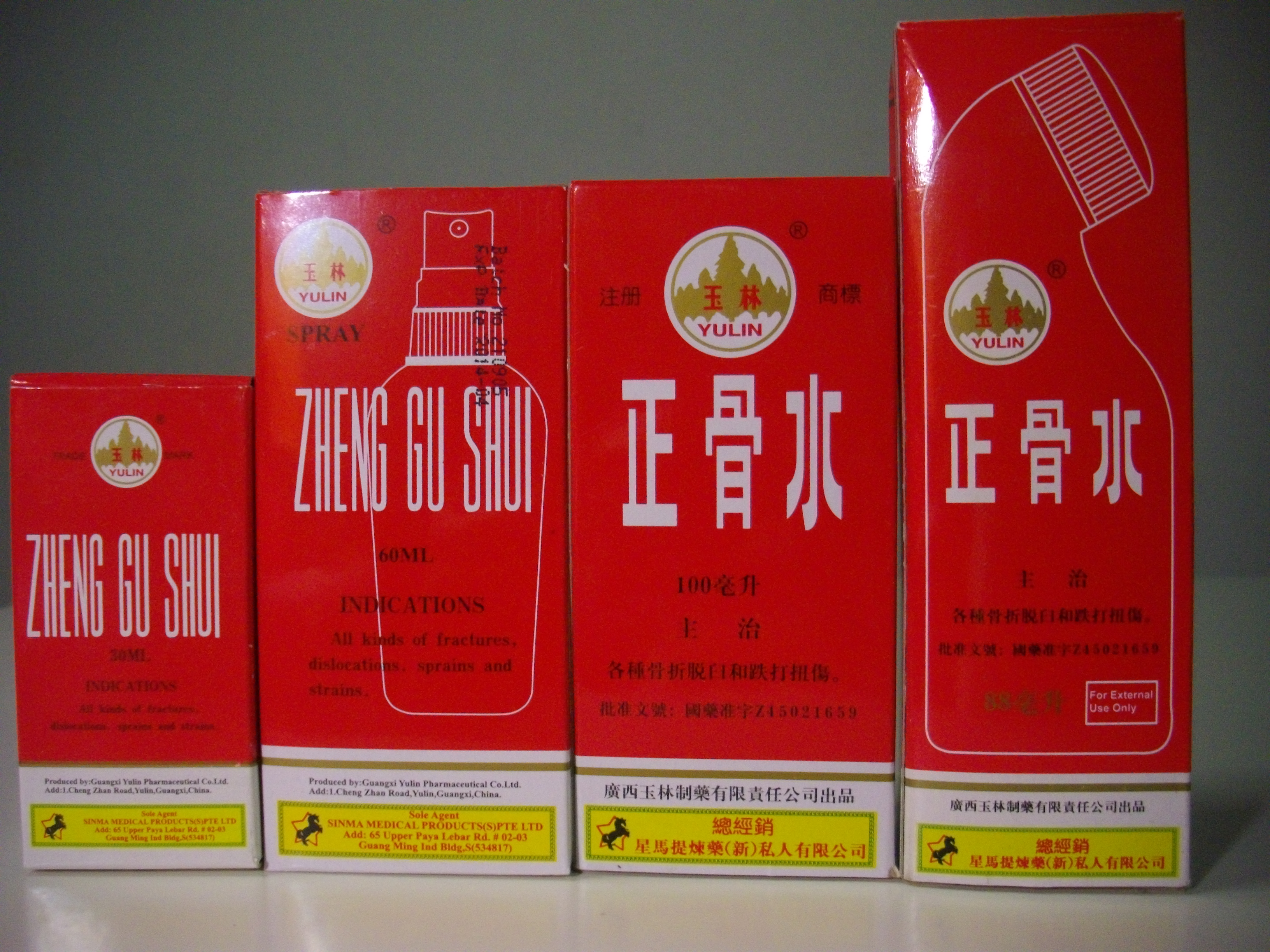 This is a picture of the product named Zheng Gu Shui (Pīnyīn: Zhèng Gǔ Shuǐ; Simplified characters: 正骨水)